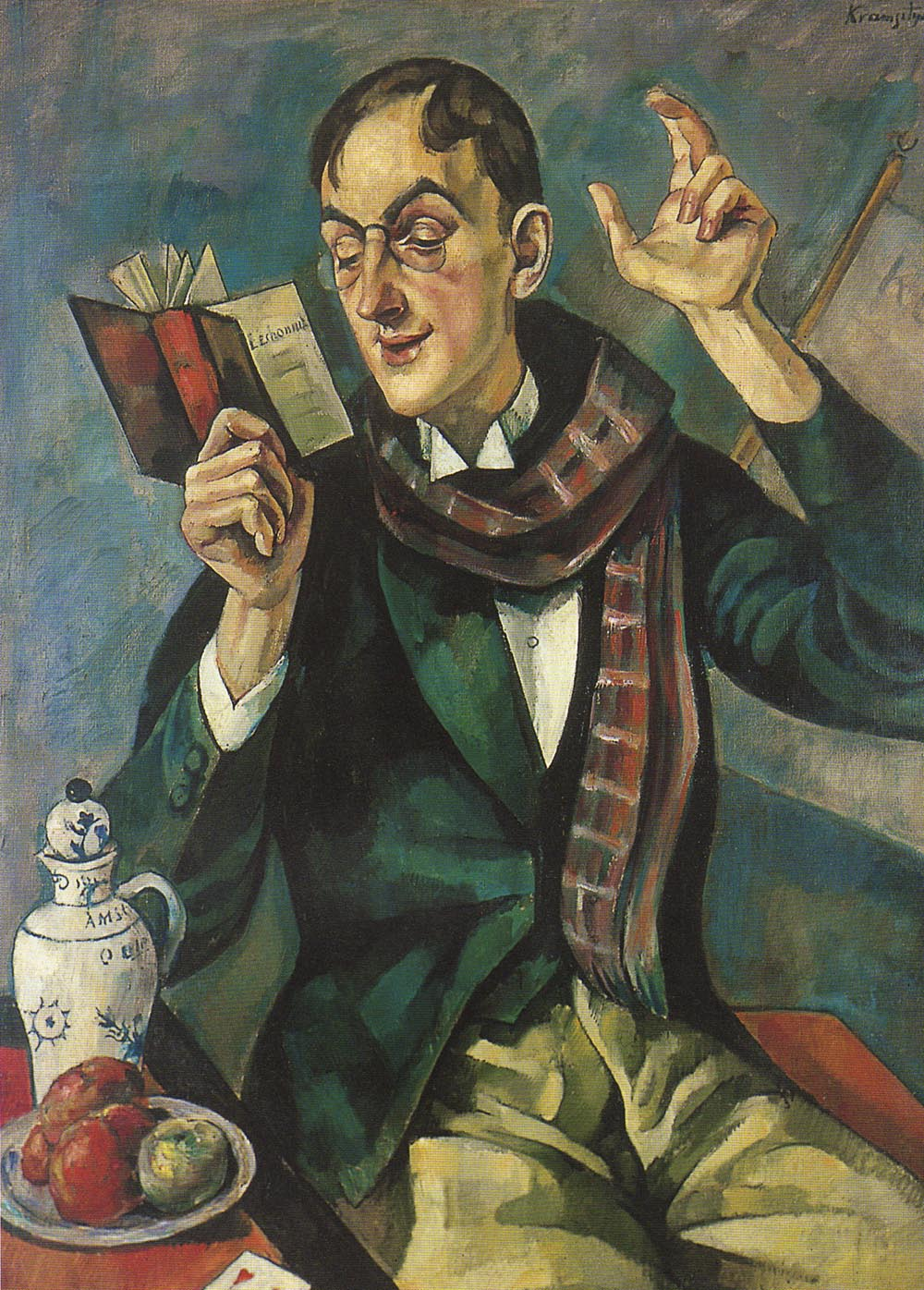 Portrait of the Polish poet Jan Lechoń